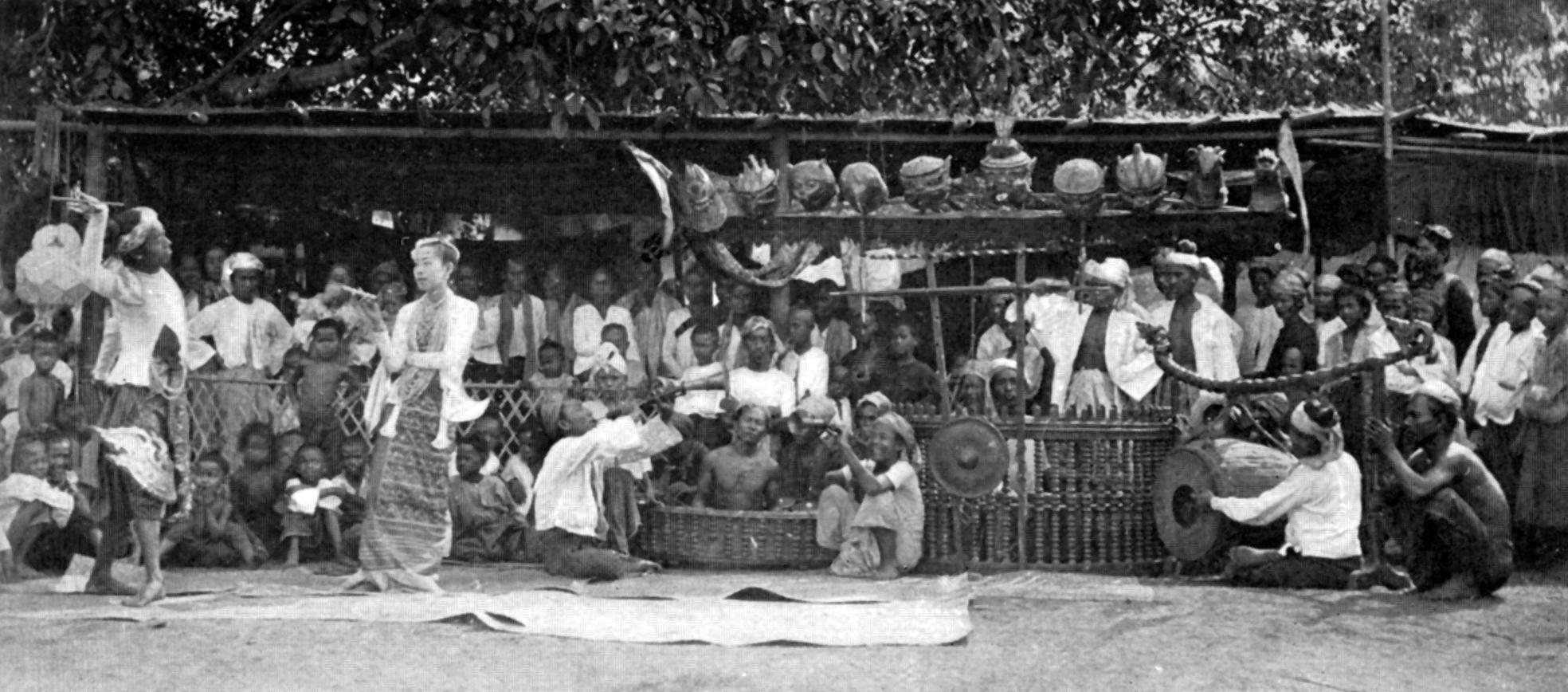 The Burmese drama (Zappwe) and band